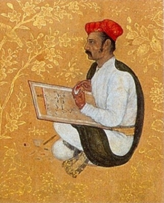 Daulat. Portrait of Bishandas. ca. 1610, Detail of the border illumination of the list from Golestan Palace Library, Tehran.